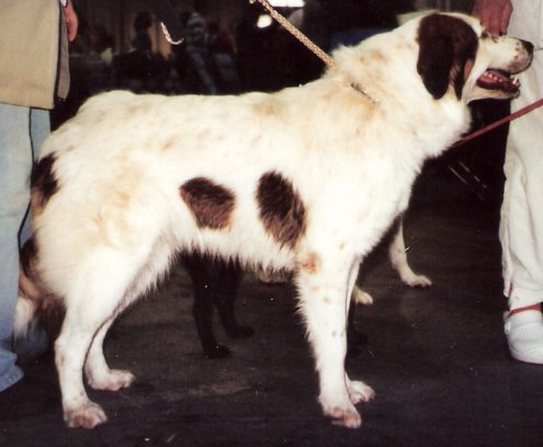 A Croatian Tornjak (aka Croatian Mountain Dog or Bosnian and Herzegovinian - Croatian Shepherd Dog) female.